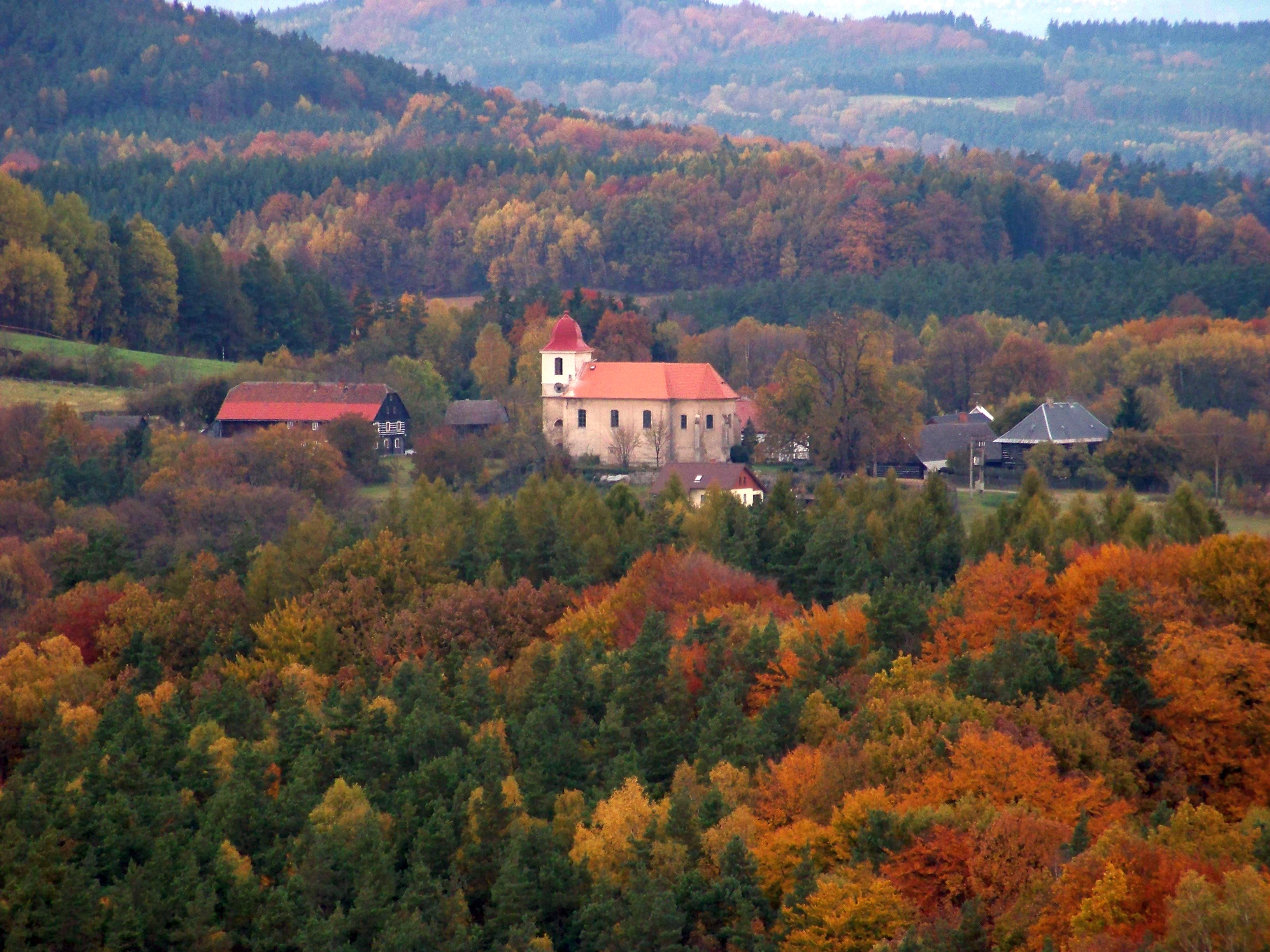 Views from the top floor of Houska Castle, Česká Lípa District, Liberec Region, the Czech Republic. Bořejov.